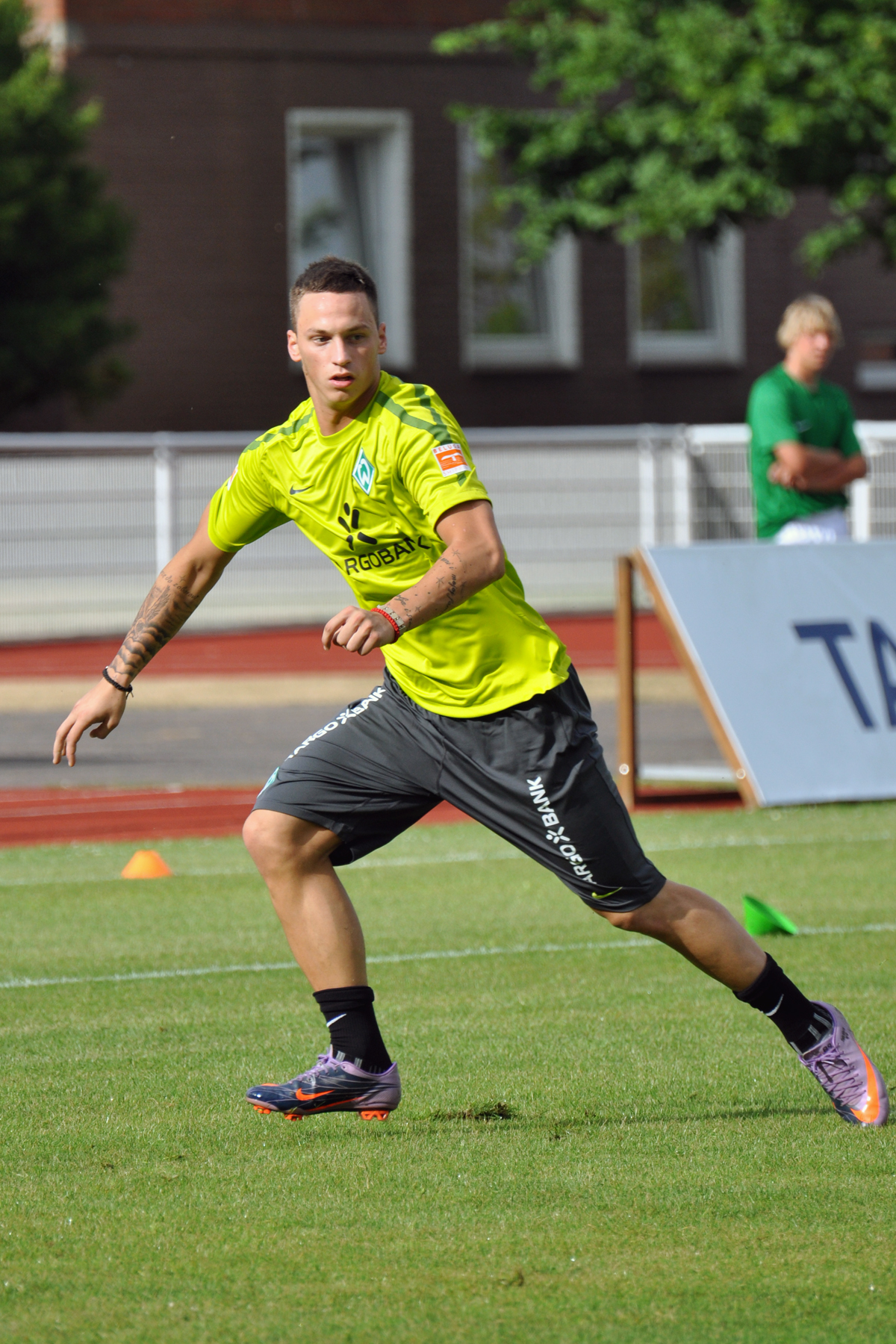 Bremen player Marko Arnautovic